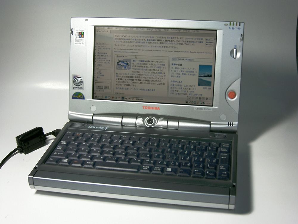 Personal Computer Libretto_FF1100 Toshiba Japan